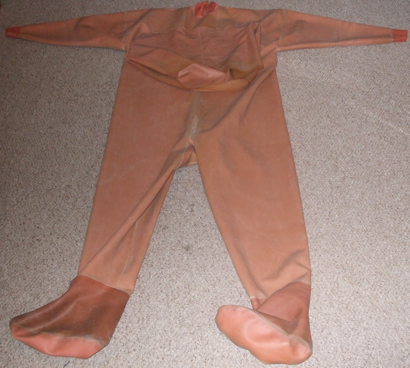 The image shows a Chinese-made wading suit covering the whole body and fitted with a pair of socks for the feet, a pair of wrist seals leaving the hands exposed and neckseal leaving the head exposed. Entry is via the suit chest aperture, which comes with excess material on the outside to be tied off afterwards for a leak-tight seal. This suit, which is donned for fishing and aquaculture in China, enables the wearer to use swimming fins for propulsion in the water.